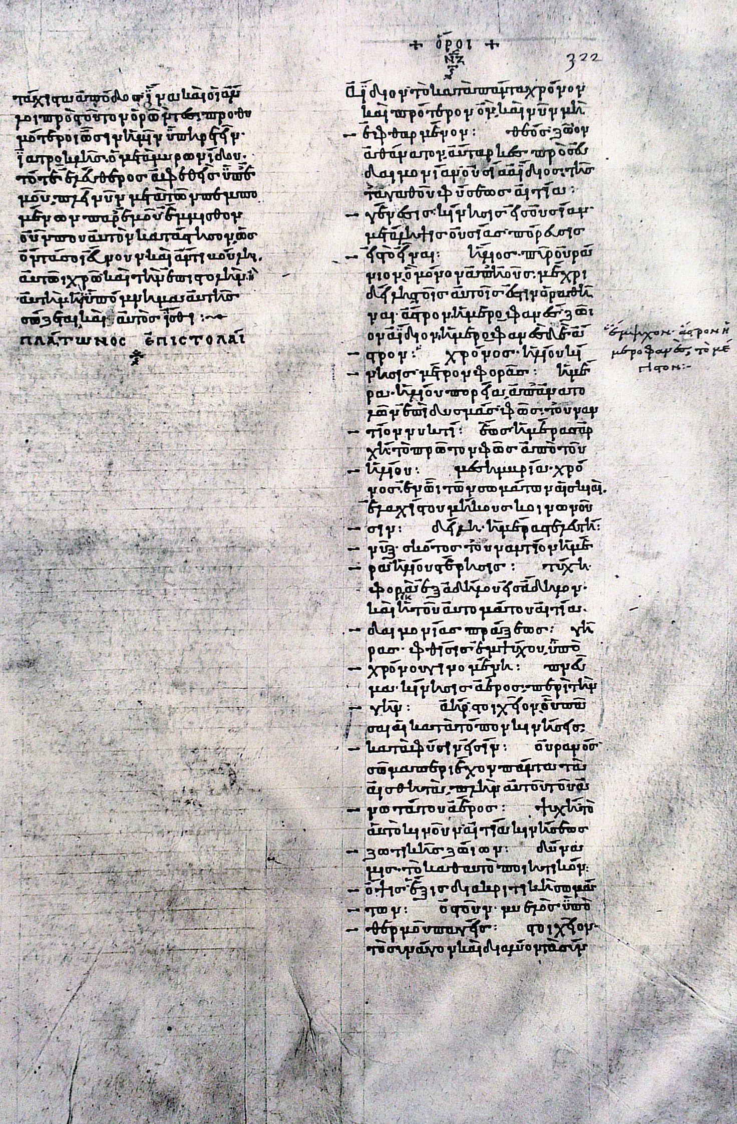 Page of the Codex Parisinus graecus 1807. Dialogue Ὅροι.